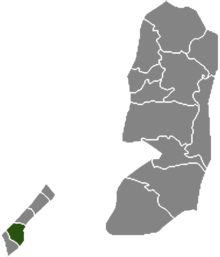 Location of the Khan Yunis Governorate — in the southern Gaza Strip of the Palestinian territories. The city of Khan Yunis is its capital.